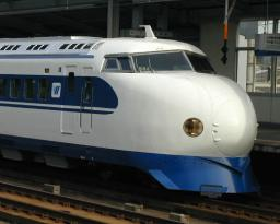 Shinkansen 0 Series at Fukuyama, April 2002.